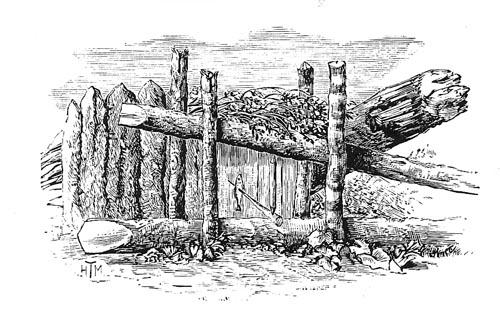 Deadfall trap, used by First Nations peoples (to catch beaver or lutra lutra ?).